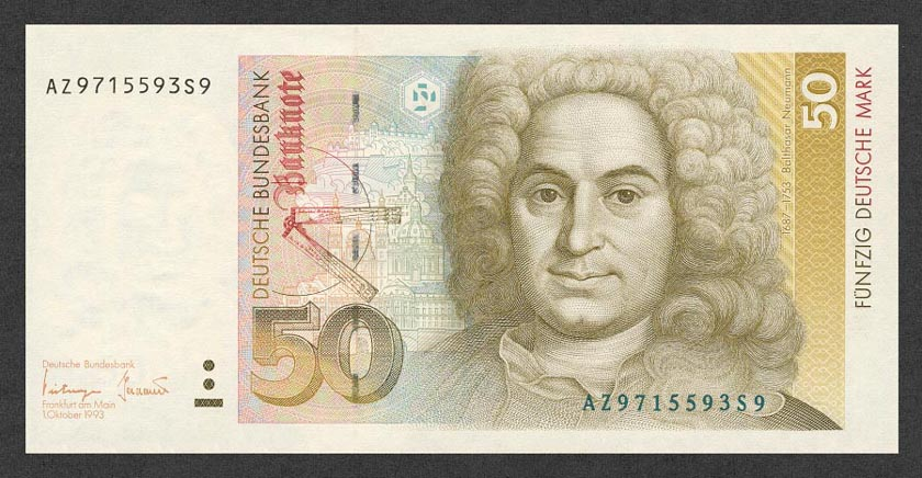 German banknote of the fourth series (since 1989/90)